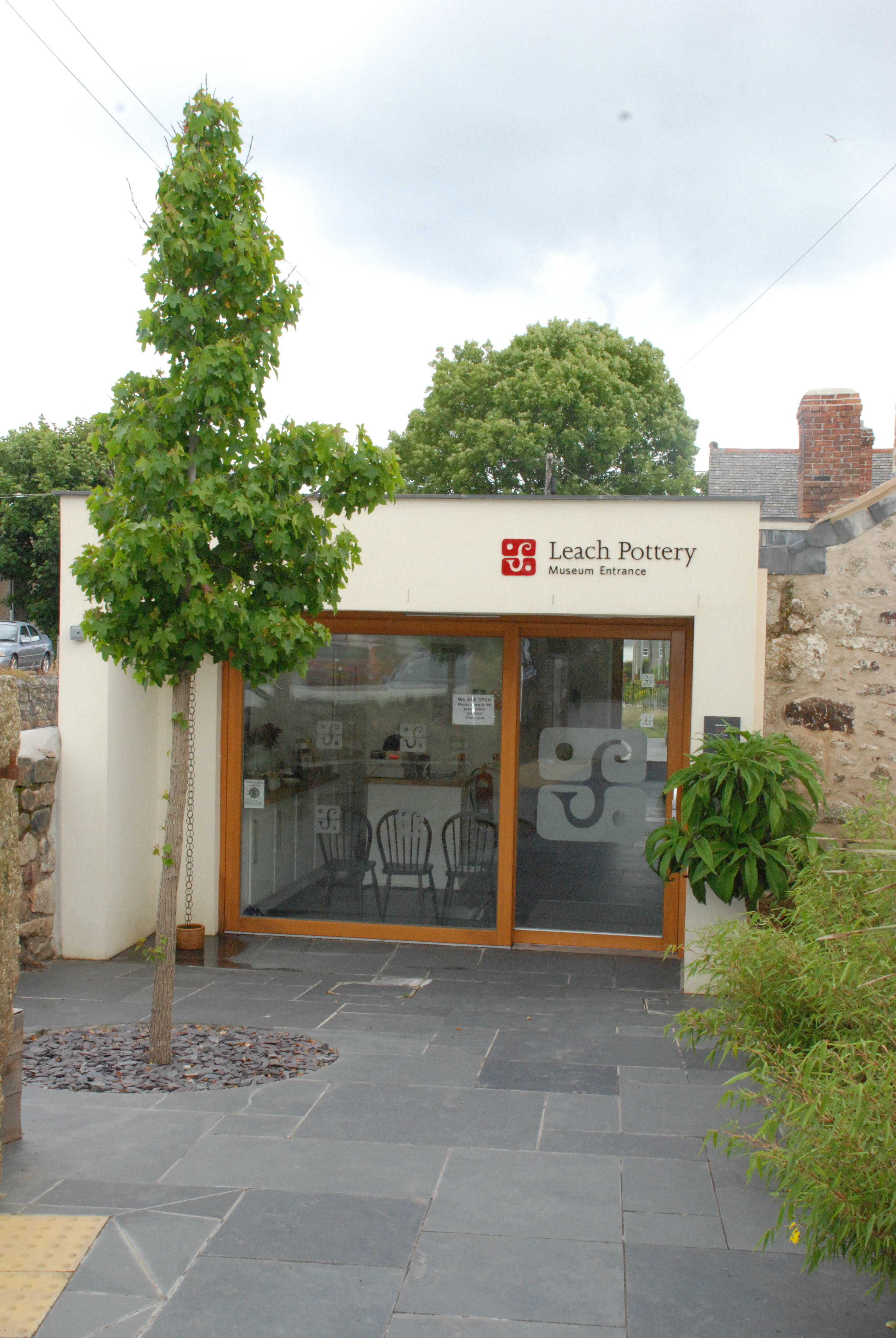 The Leach Pottery Home of studio pottery The Leach Pottery in St Ives was established by Bernard Leach and Shoji Hamada in 1920. One of the great figures of 20th century art, Leach played a crucial pioneering role in creating an identity for artist potters in Britain and around the world. In March 2008, a £1.7 million capital project was completed, giving new life to the Leach Pottery and enabling it to set up in production and open its doors to the public once again.